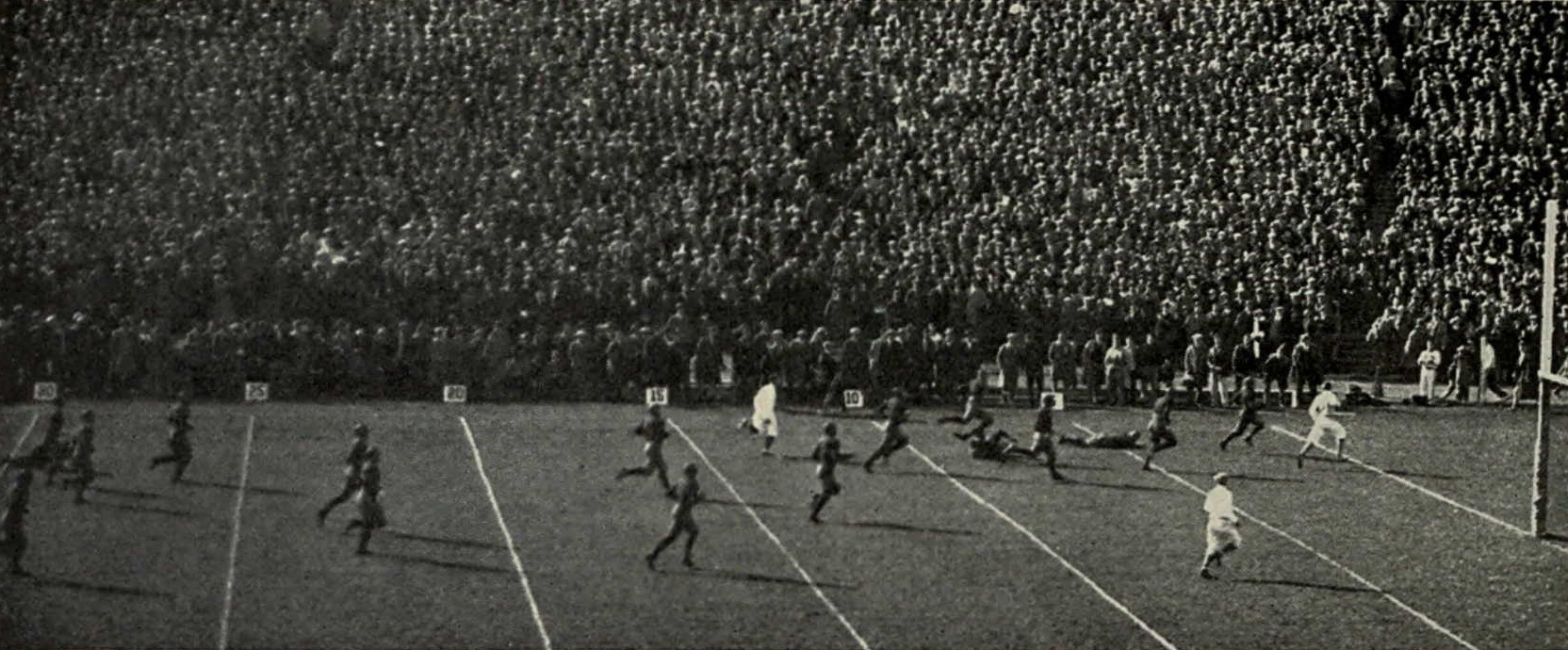 Photograph of Benny Friedman scoring Michigan's second touchdown against Wisconsin in October 1925 on a long kickoff return in the first quarter.